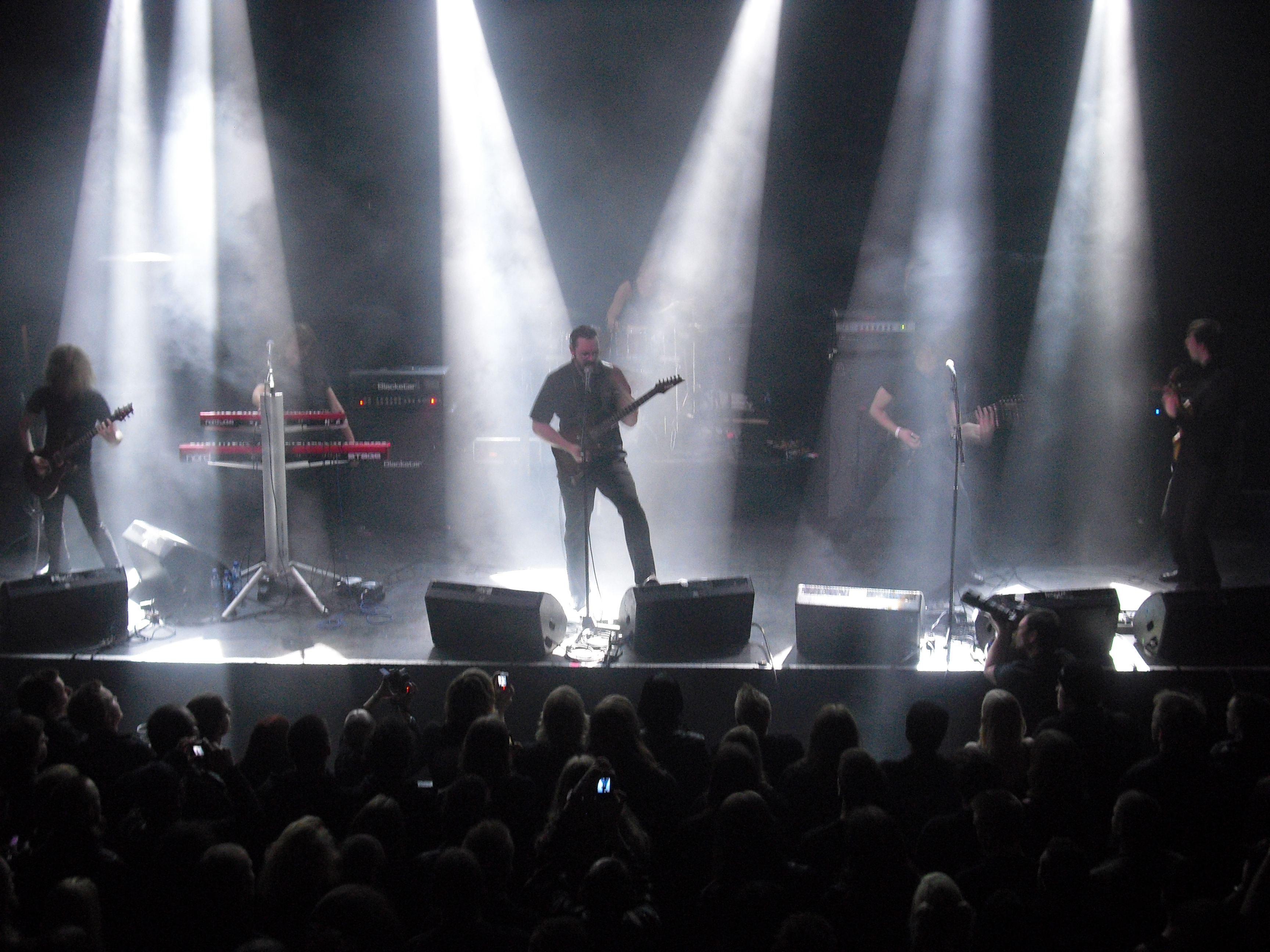 Ihsahn live at Inferno Metal Festival in Oslo, Norway, 2 April 2010.